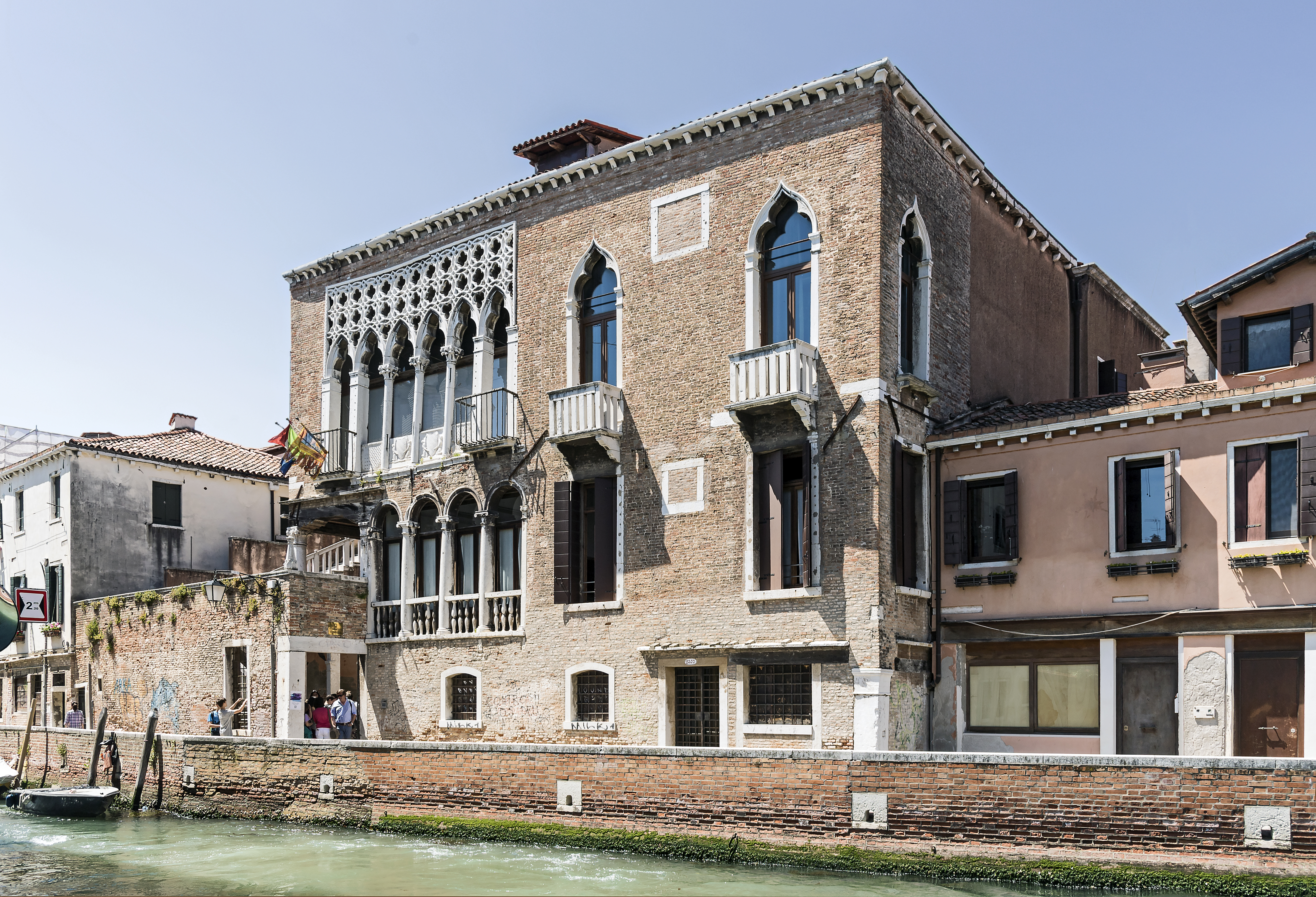 Palace Ariani Minotto Cicogna, Venice, facade on Rio dell'Angelo Raffaele